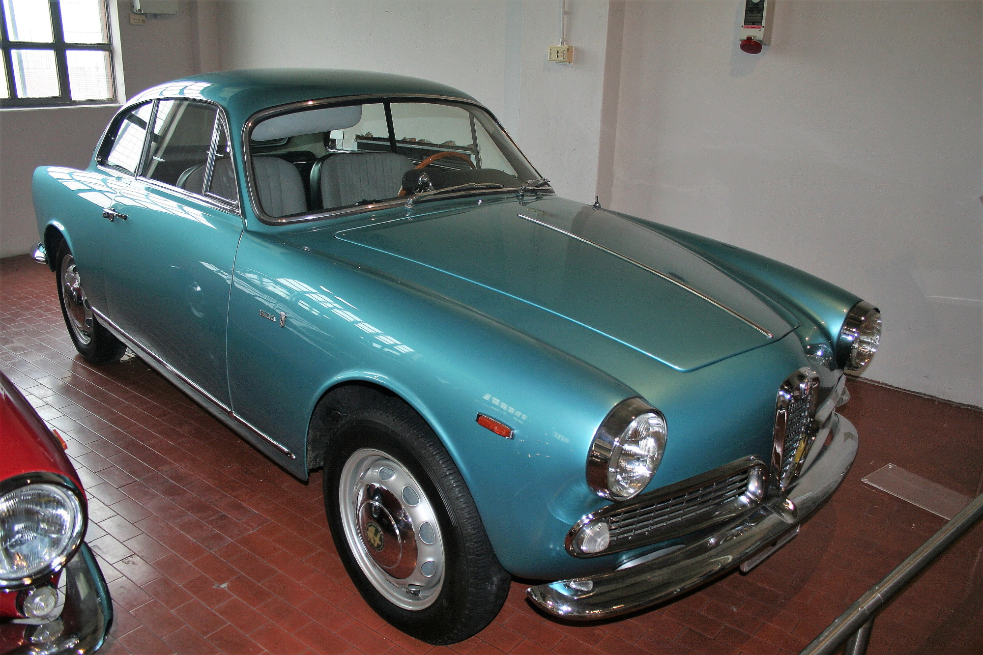 At the Bertone collection of the Automotoclub Storico Italiano (ASI), located in Volandia outside of Milan (by the Malpensa airport and museum areas